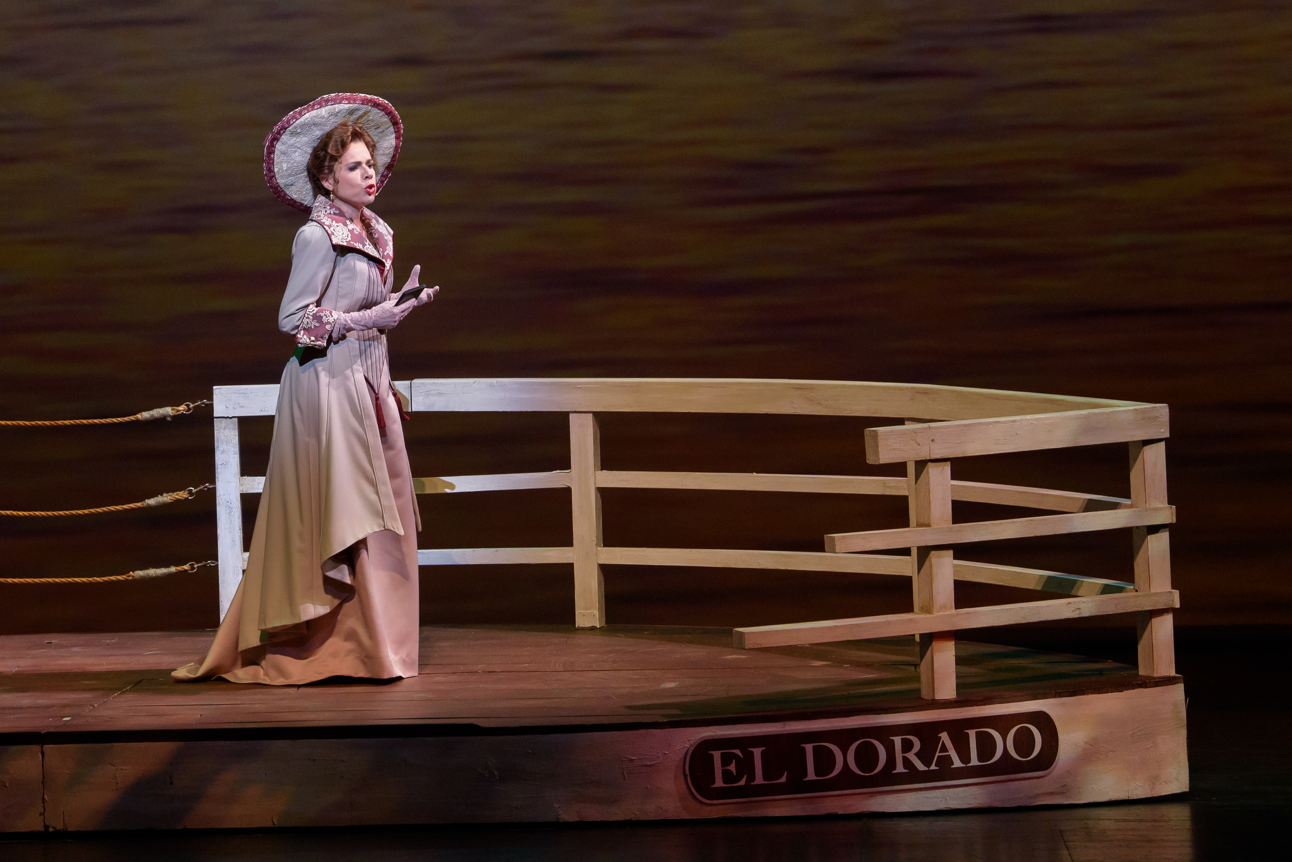 Photo by Chris Kakol